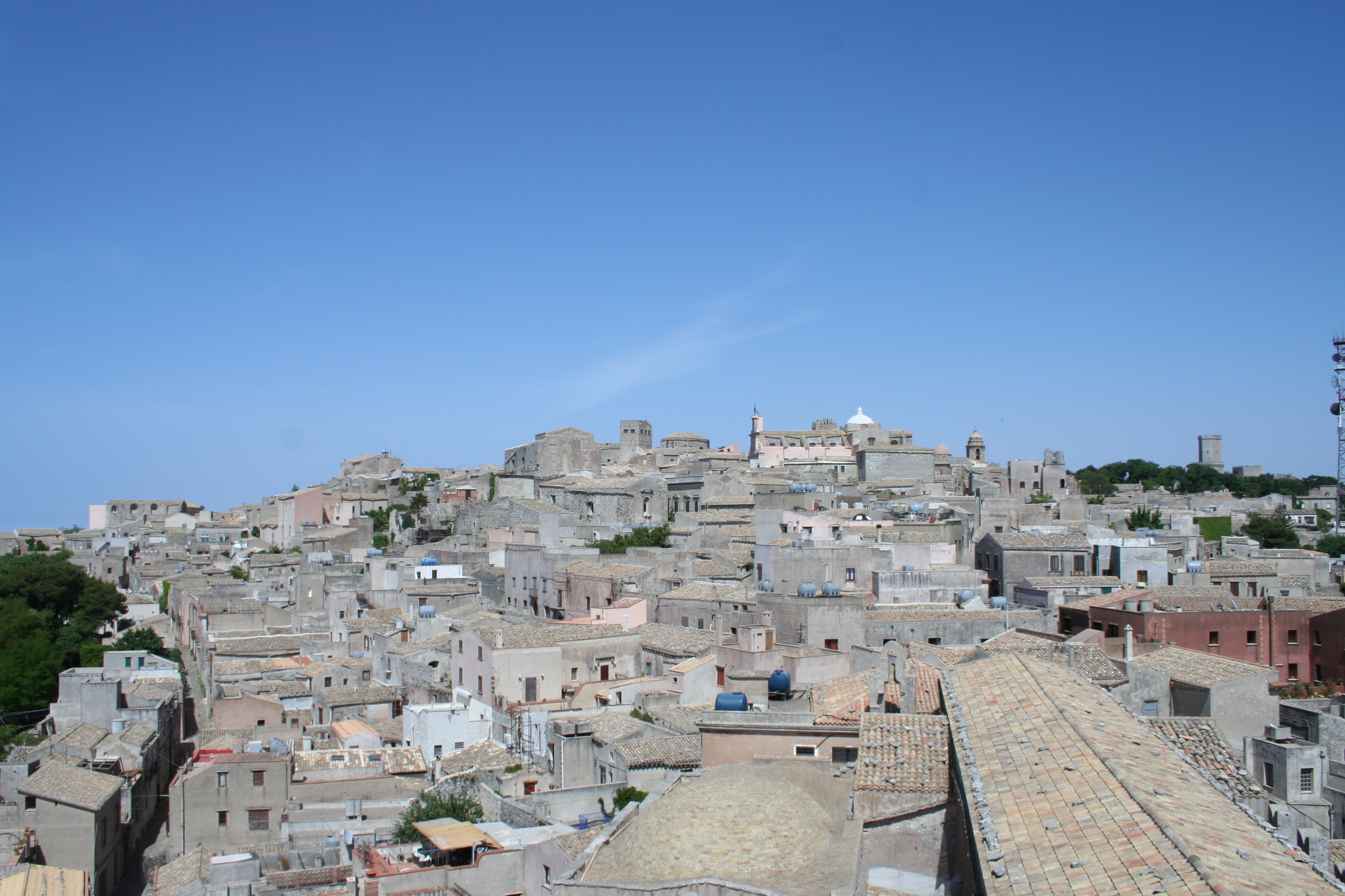 View of the historic town of Erice, Sicily, Italy.